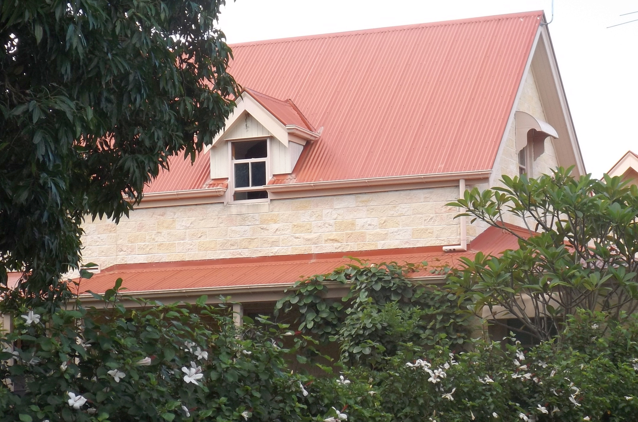 Photo of Bulimba House at Bulimba, Brisbane, Queensland, Australia.